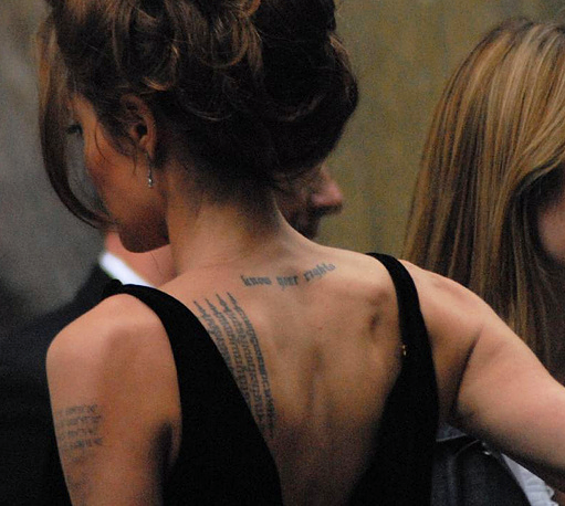 Angelina Jolie at the New York "A Mighty Heart" Premiere, June 12, 2007 Cropped from Image:JolieTattoo.jpg